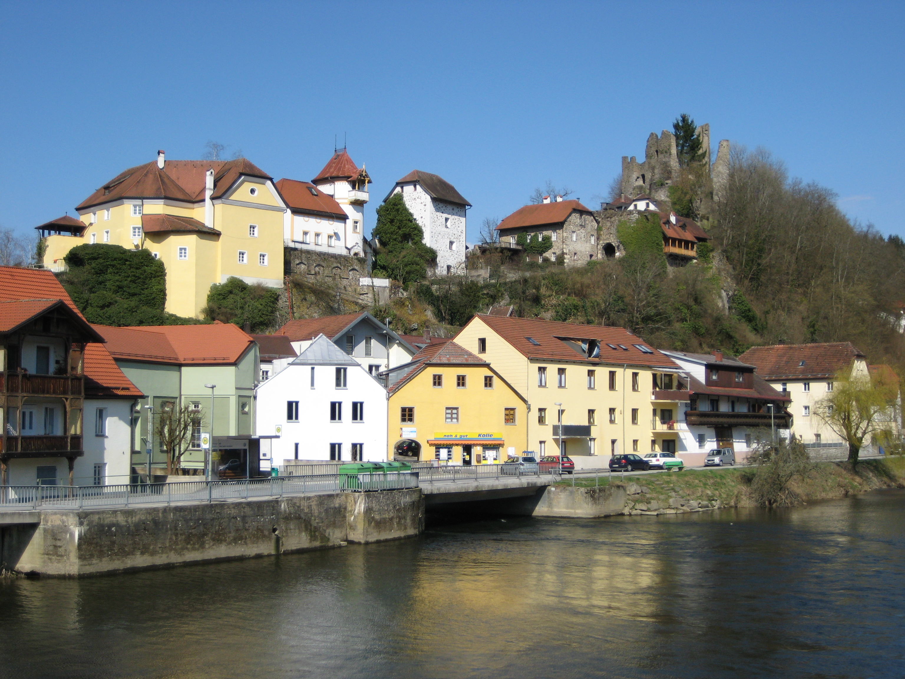 District Hals of Passau